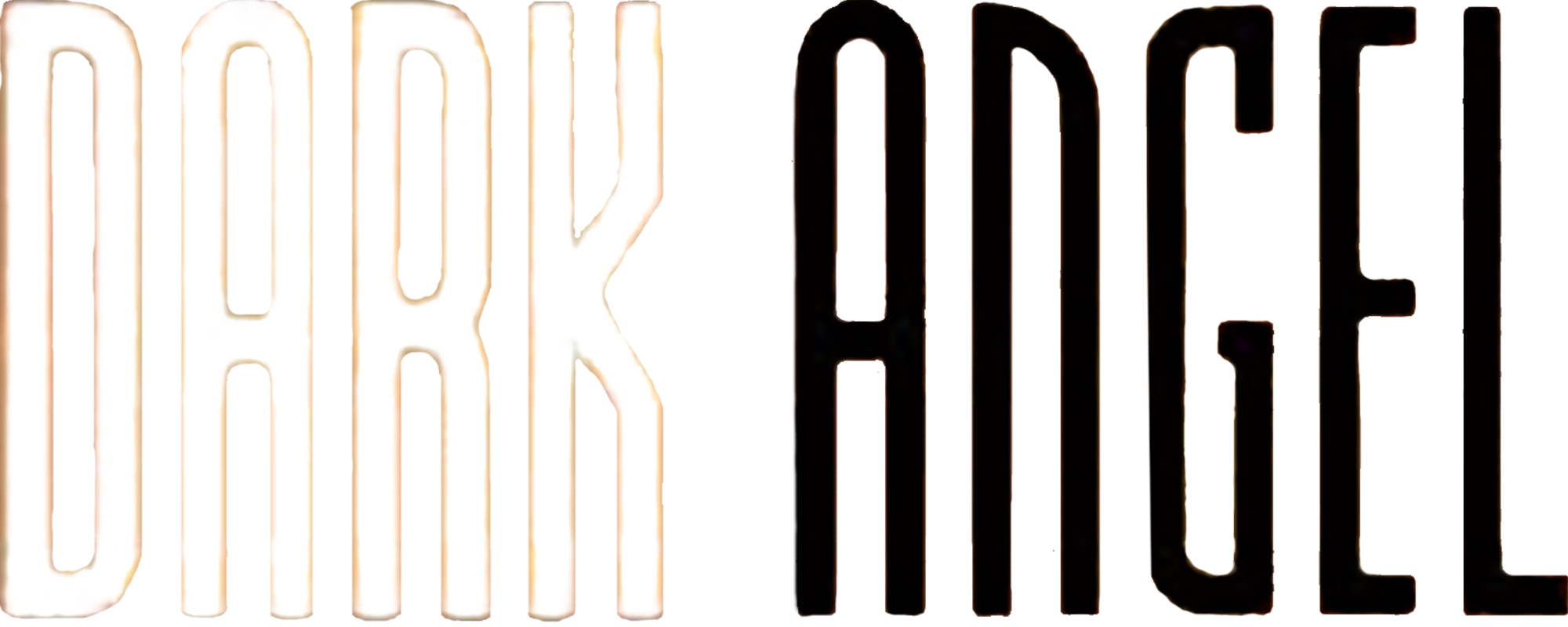 Logo of Dark Angel TV series made by me in Photoshop